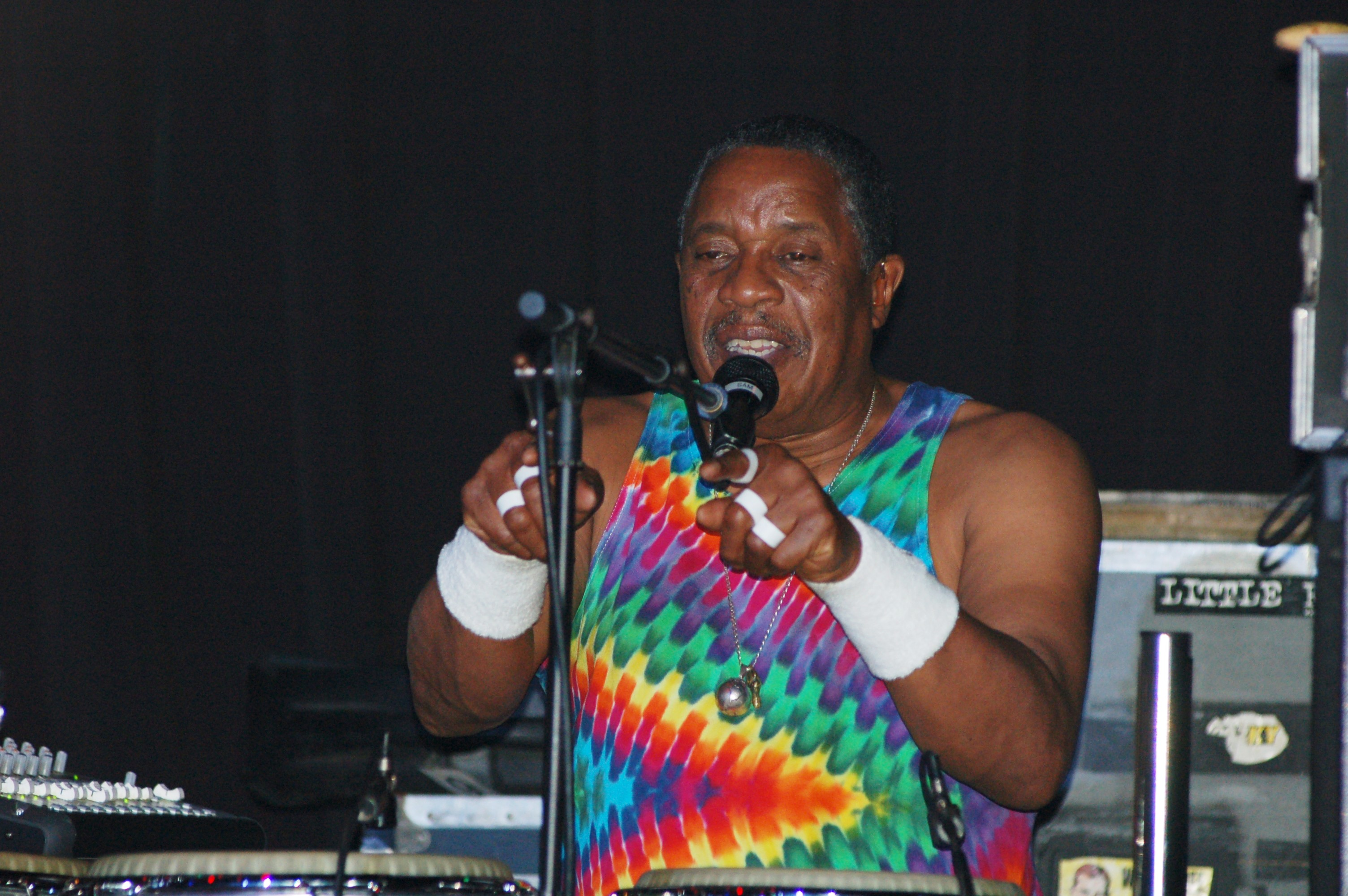 Sam Clayton of Little Feat, support vocalist, and percussionist, still playing with the band after about 40 years. en.wikipedia work group focus on Jam bands.